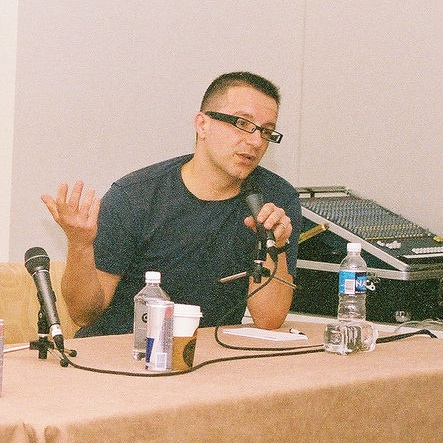 Author: Alex Reynolds Taken at Mutek 2005 (Montréal) Source: Flickr [1] © 2005 Alex Reynolds